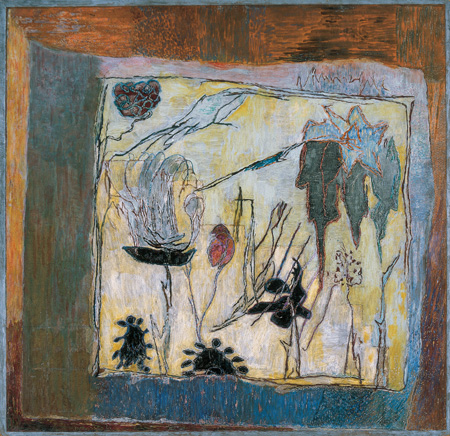 Painting by Ilka Gedő at the Hungarian National Gallery ARTIFICIAL FLOWER WITH DAGGERS oil on wooden board, 61 x 61 cm